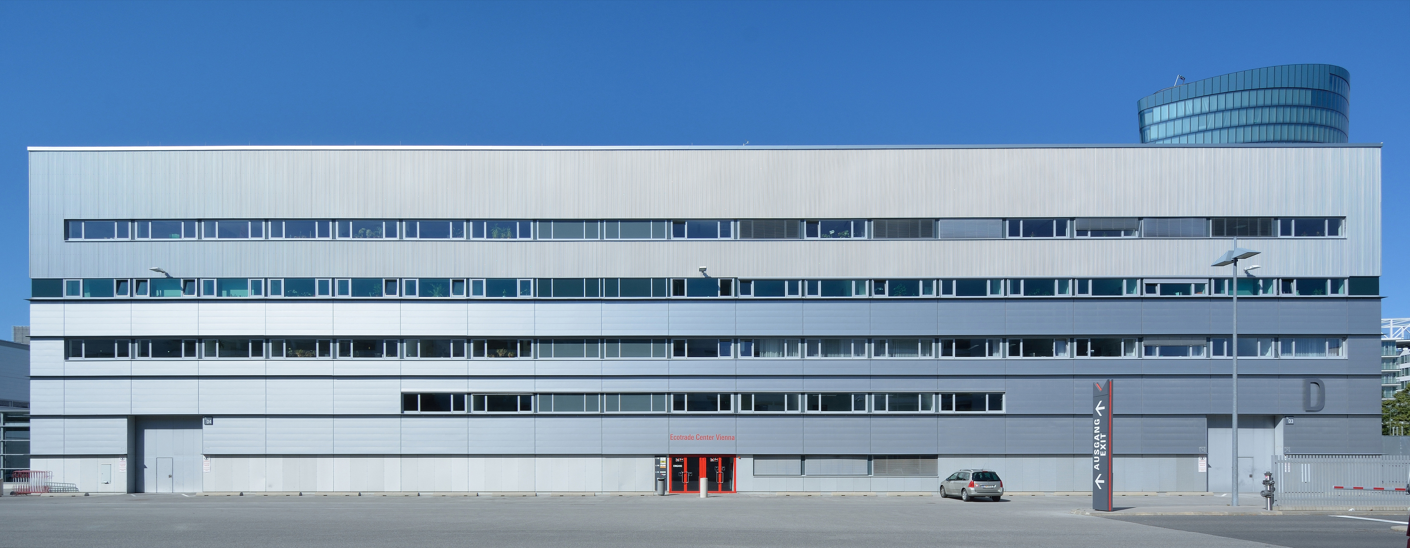 Messe Wien, hall D, 2nd district of Vienna